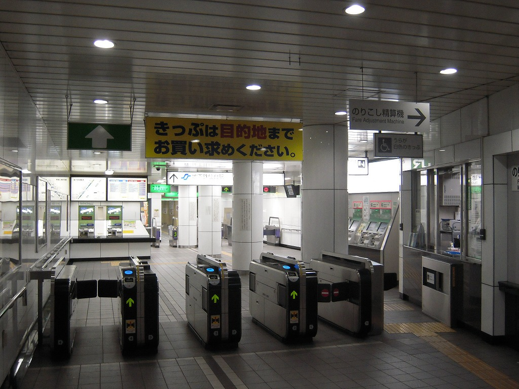 Aobadori station (JR East Senseki line,Aoba-ku,Sendai city) gate for Sendai city subway Sendai station